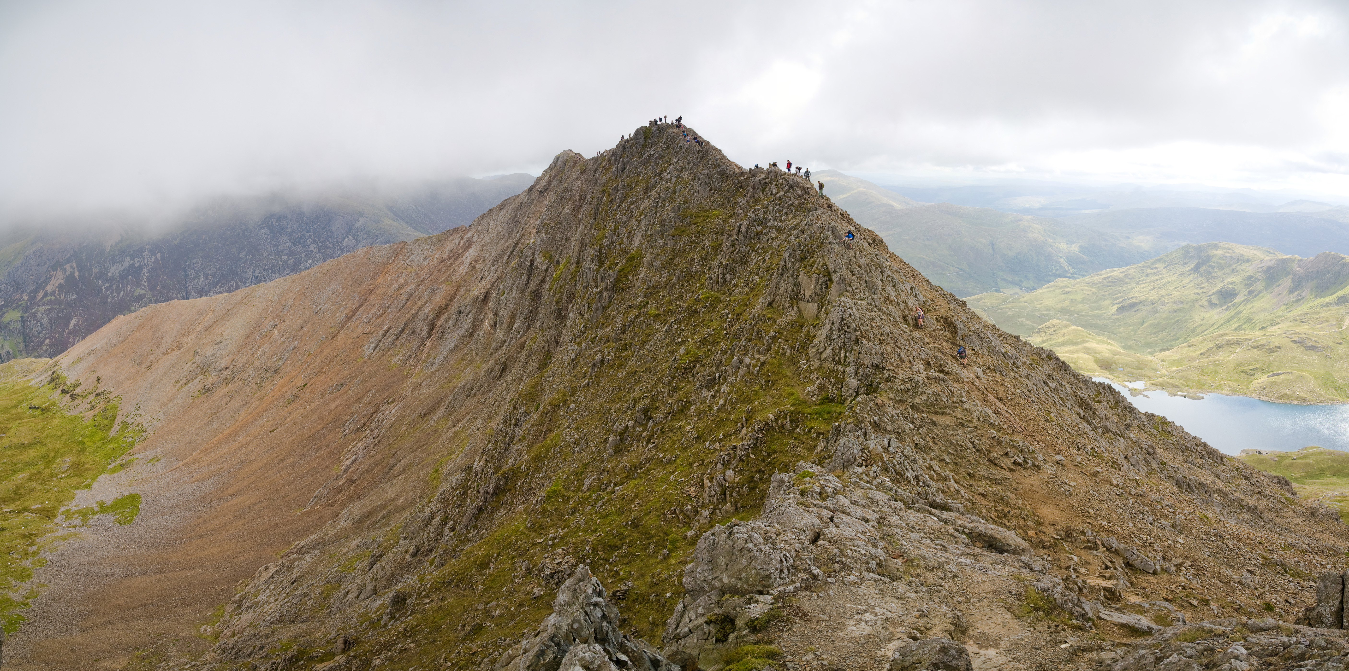 A four segment panoramic image of Crib Goch facing east in Snowdonia National Park, Wales. Taken with a Canon 5D and 24-105mm f/4L lens at 24mm.